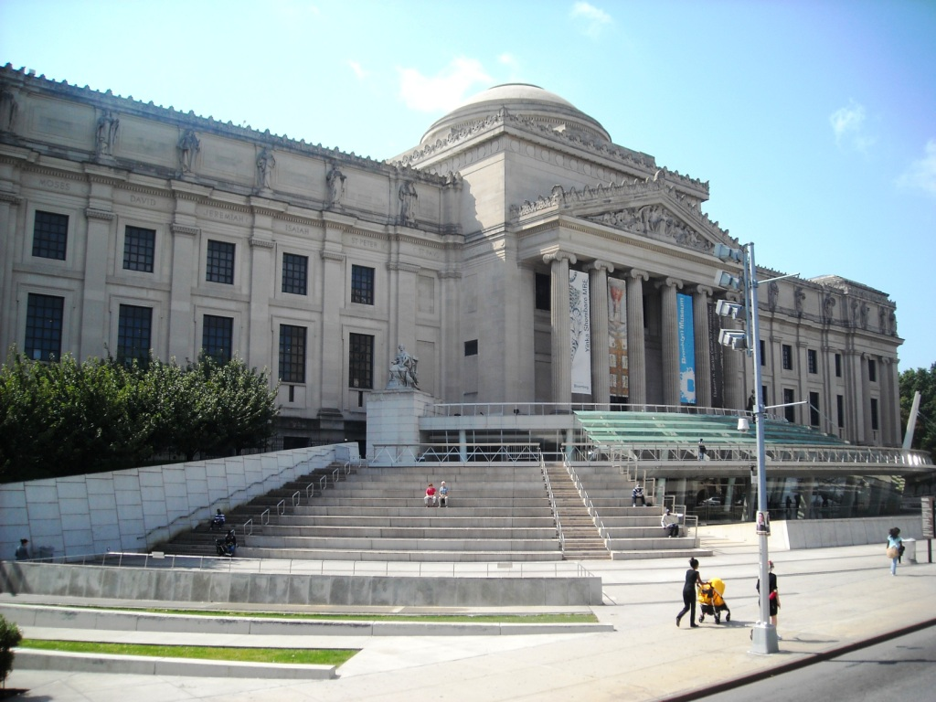 Brooklyn Museum, Eastern Parkway and Washington Ave. Prospect Heights, Brooklyn